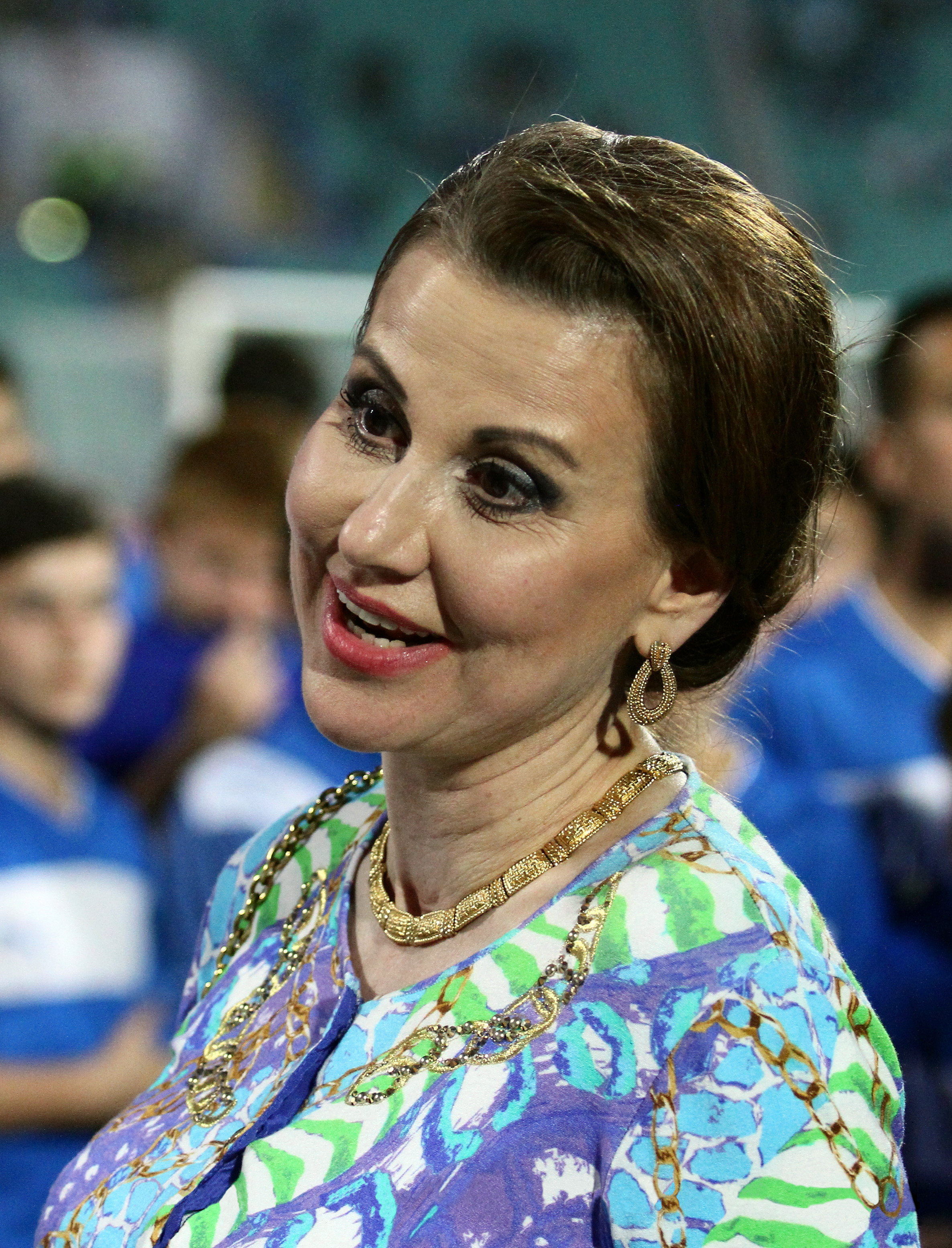 Iliana Raeva Sirakova (Илиана Раева Сиракова) is a Bulgarian gymnast who competed in modern rhythmic gymnastics for her country from 1978 to 1982. She was one of the Golden Girls of Bulgaria that dominated Rhythmic Gymnastics in 1980's.